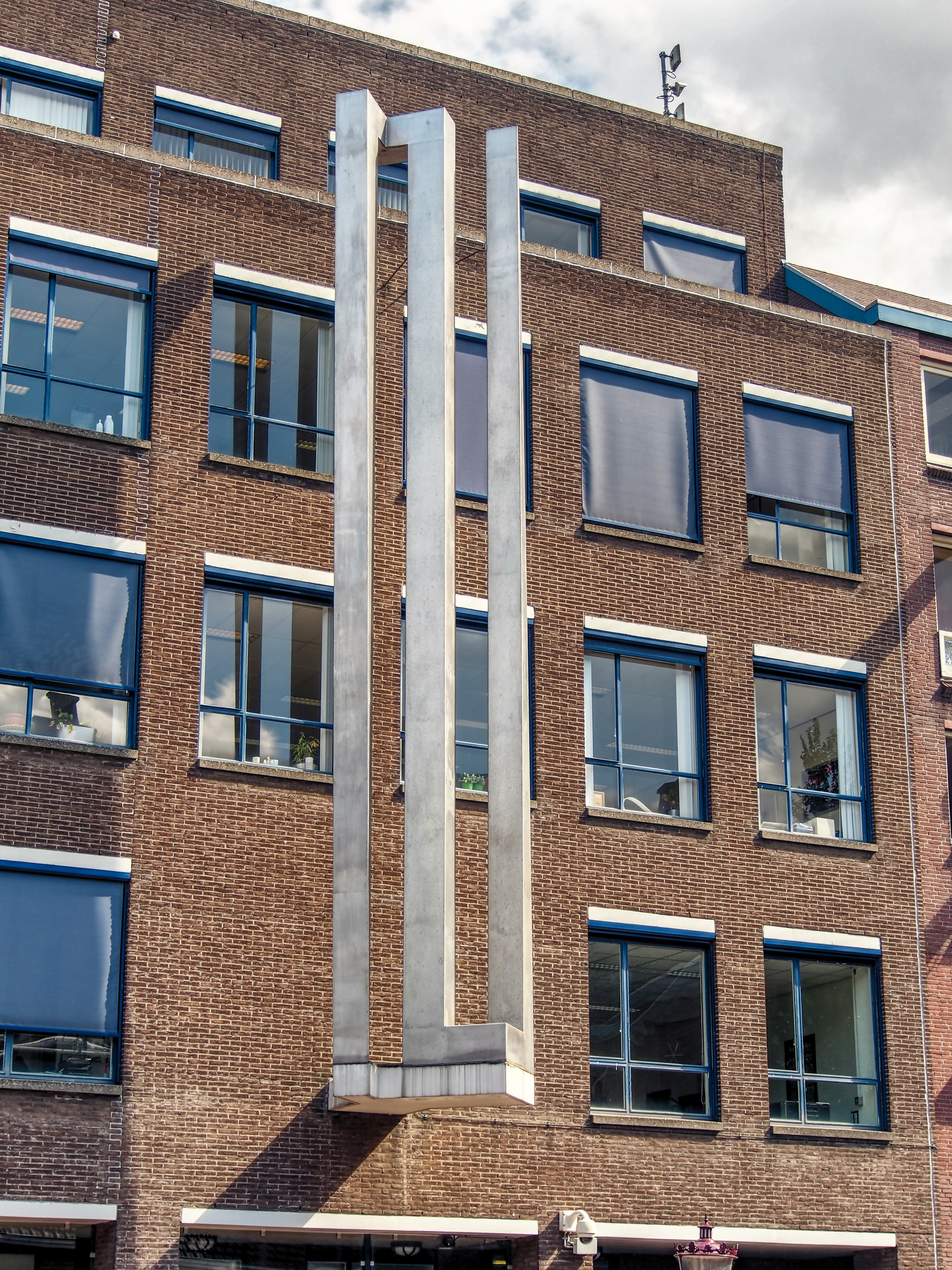 Photographed at Amsterdam, The Netherlands.